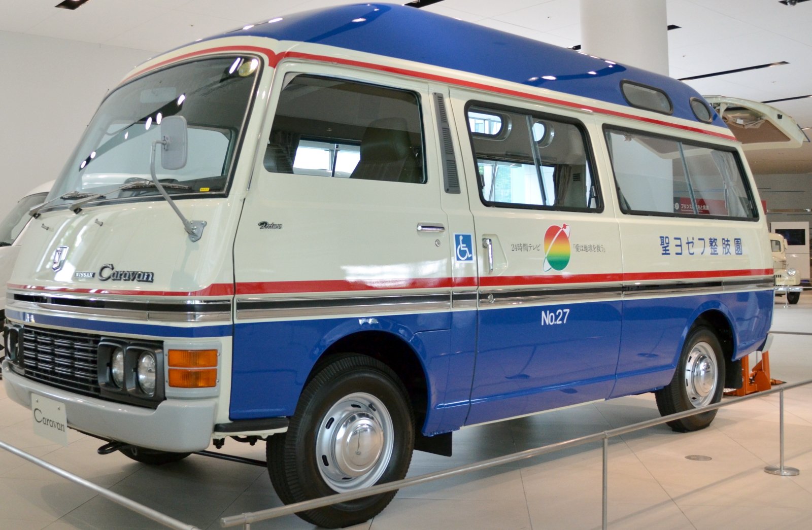 Nissan Caravan Chair Cab